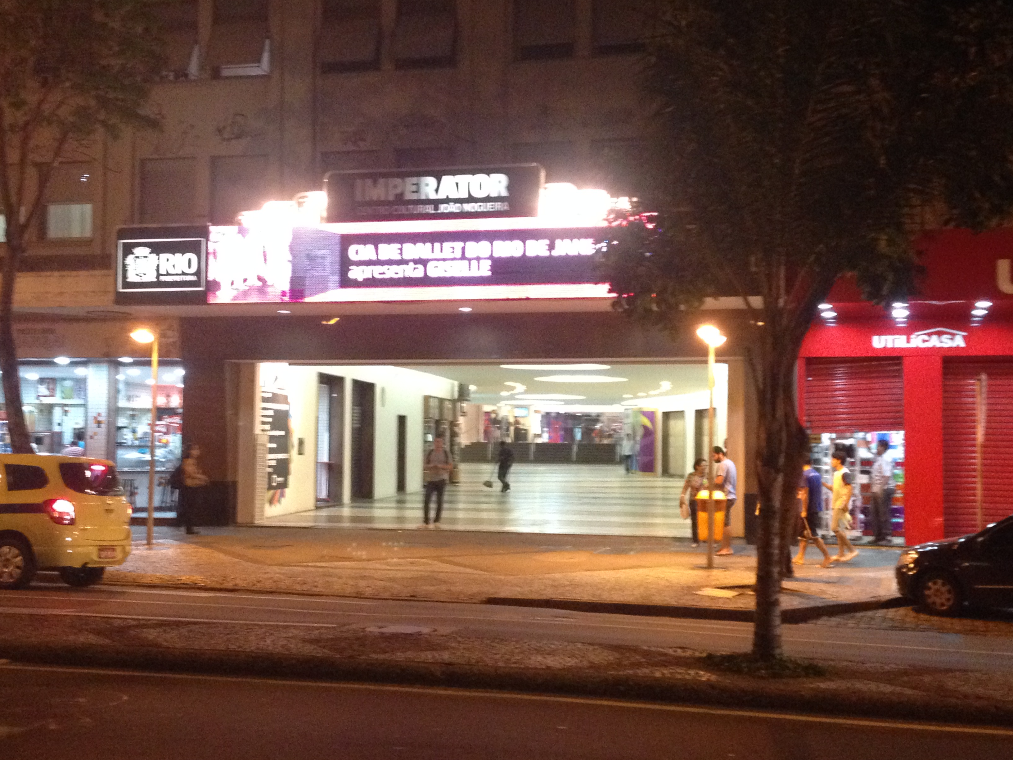 Imperator - Centro Cultural João Nogueira, a house of culture in Rio de Janeiro, Brazil.